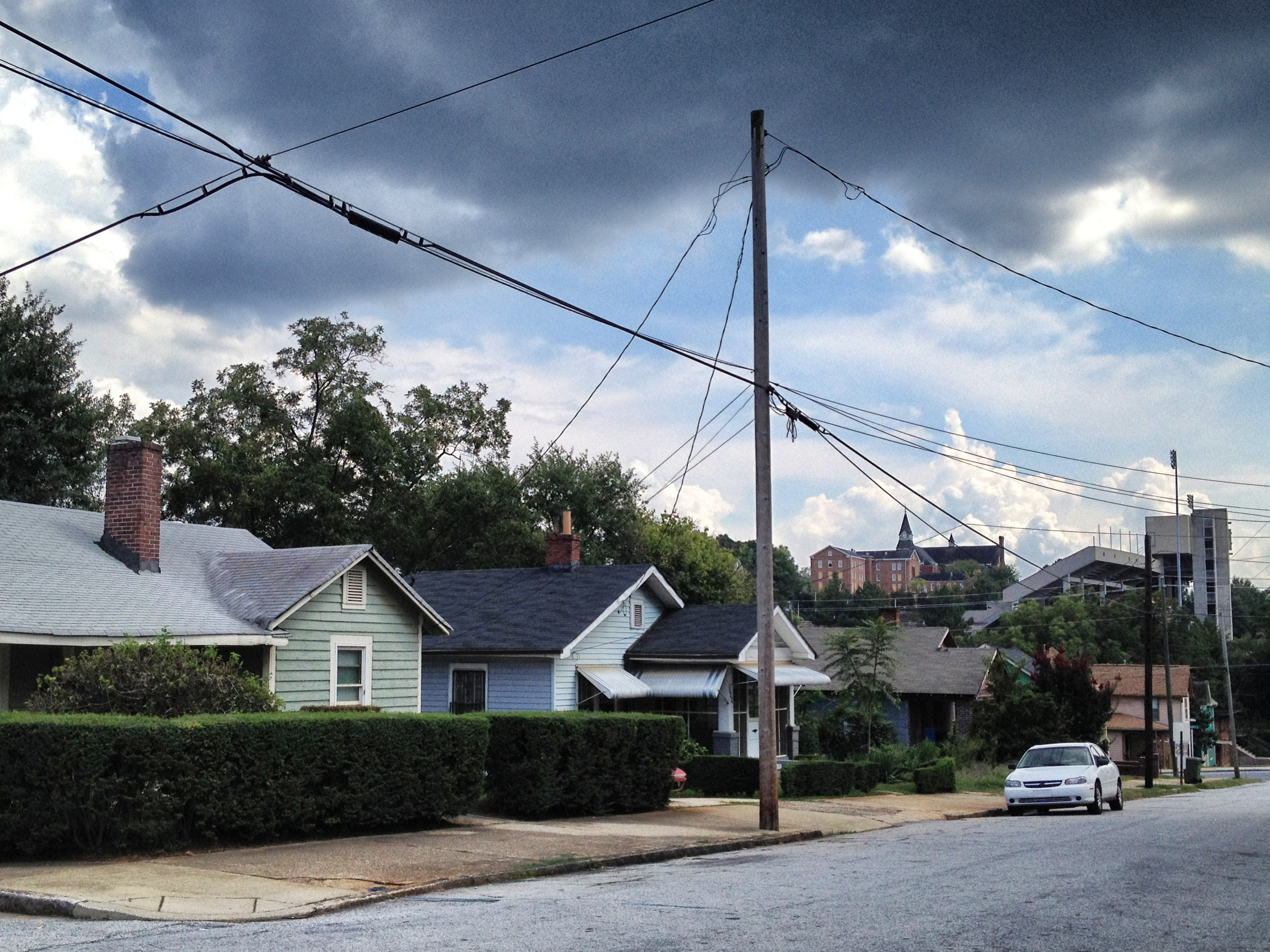 Houses in proposed Sunset Avenue Historic District, Vine City, with Herndon Stadium in background, and beyond, Fountain Hall at Morris Brown College